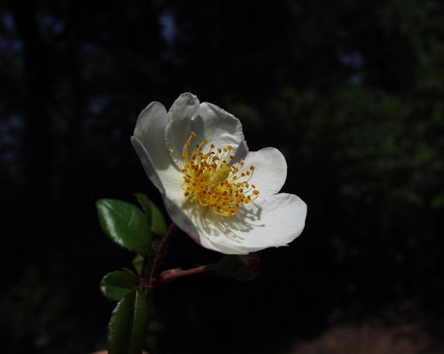 (en) Rosa sempervirens, a photography originating of the internet site The accord of the autor, H. Brisse, is here. (fr) Rosa sempervirens, une photographie issue du site internet L'accord de l'auteur, H. Brisse, se situe ici.